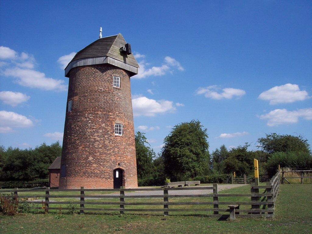 Hough Mill, Swannington, Leicestershire. Under restoration.